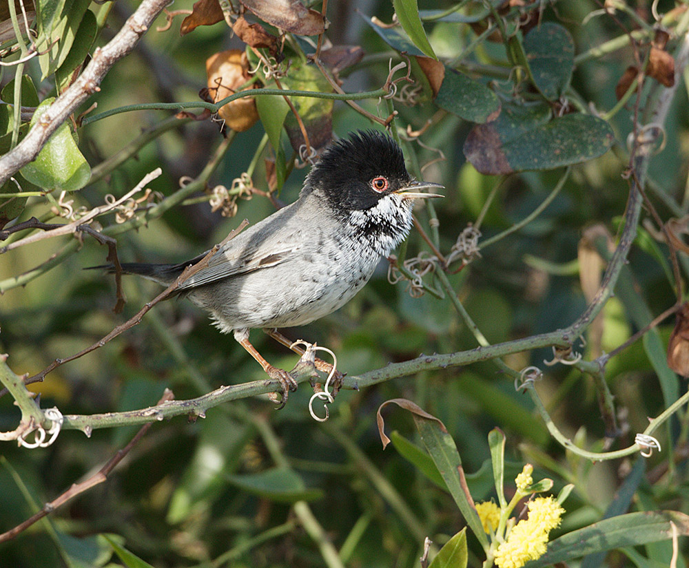 Male Cyprus Warbler in Cyprus